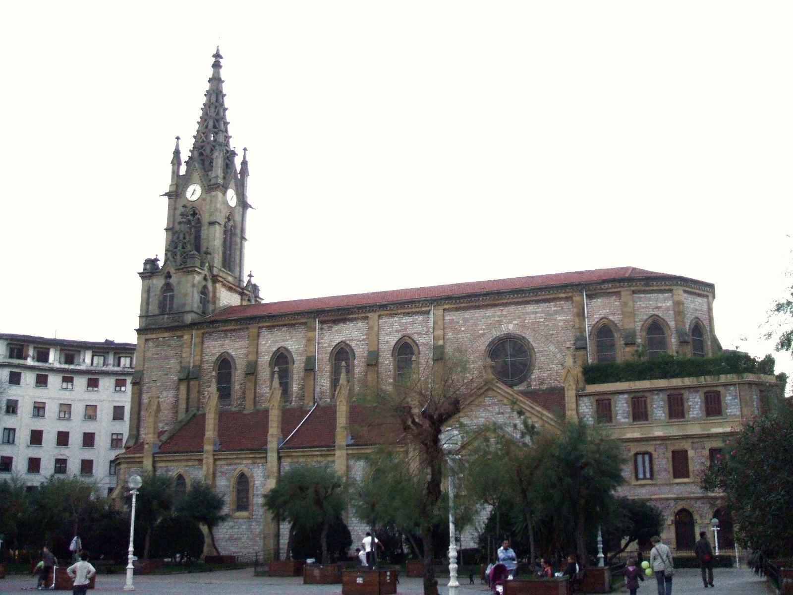 Iglesia de San Ignacio de Loyola, San Sebastián (Guipúzcoa, País Vasco, España)